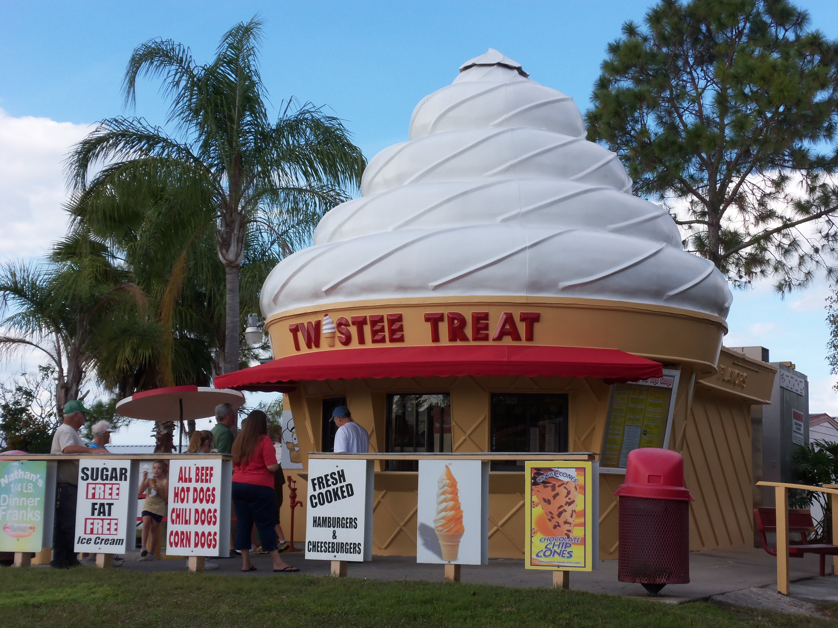 Ice-cream shop in Hudson - USA